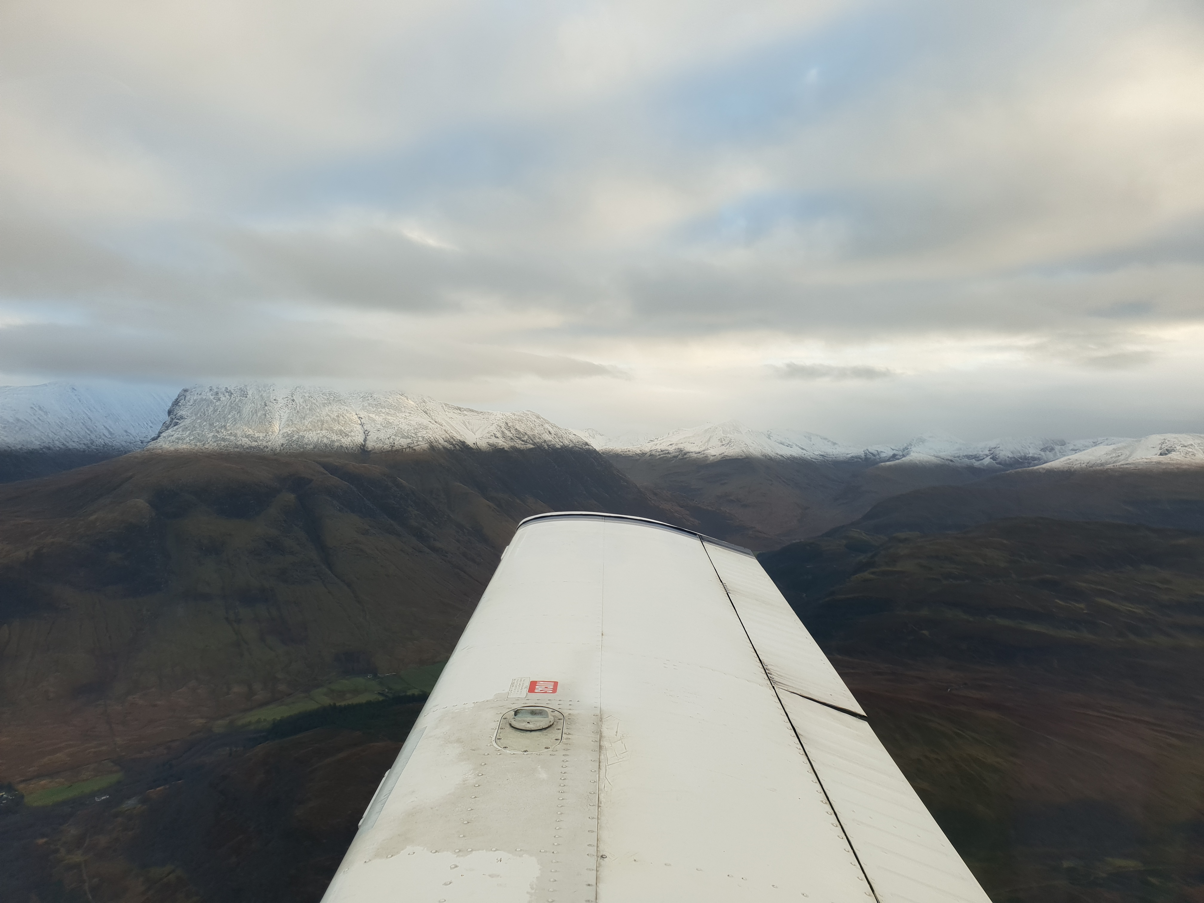 Highland Aviation - Mountain Flying